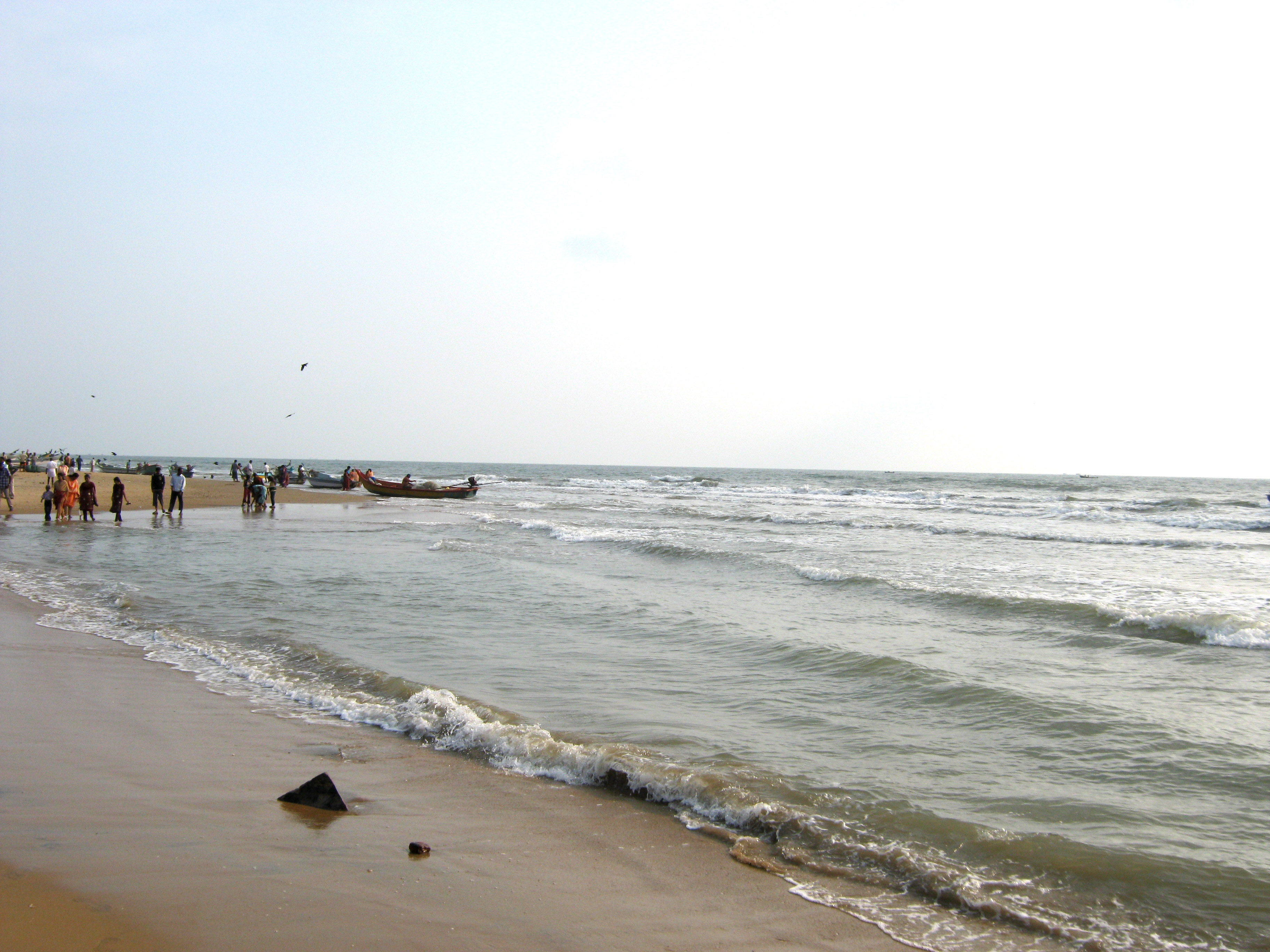 Velankanni Sea